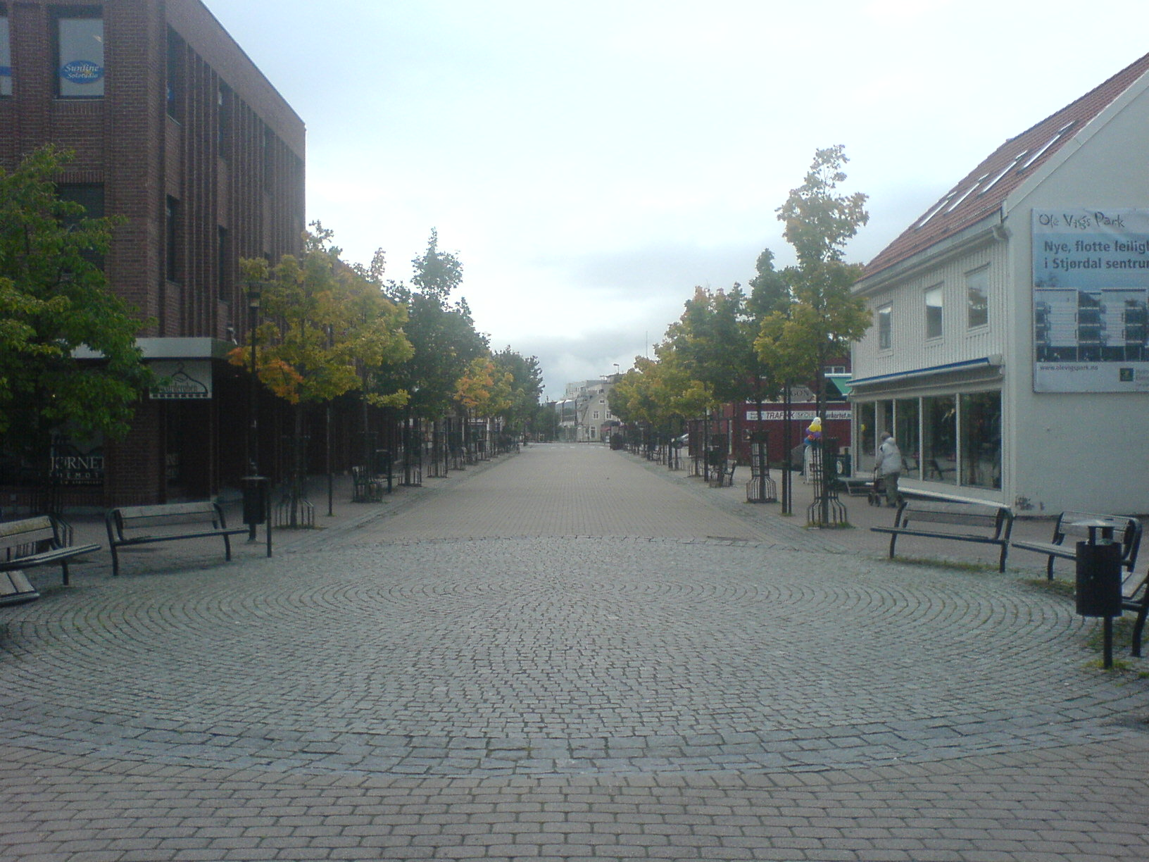 The main street in Stjørdal (Norway) called "Kjøpmannsgata" ("The Merchant Street").